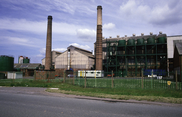 New Cheshire Salt Works Ltd, Wincham A small scale high quality salt works using vacuum evaporation technology. Closed 2006 and was one of the last (if not the last) sites with a reciprocating steam engine power house. This ran 24/7 generating power for the site. On this particular occasion it was the annual shut-down and two fitters were completing an overhaul of the steam engines.